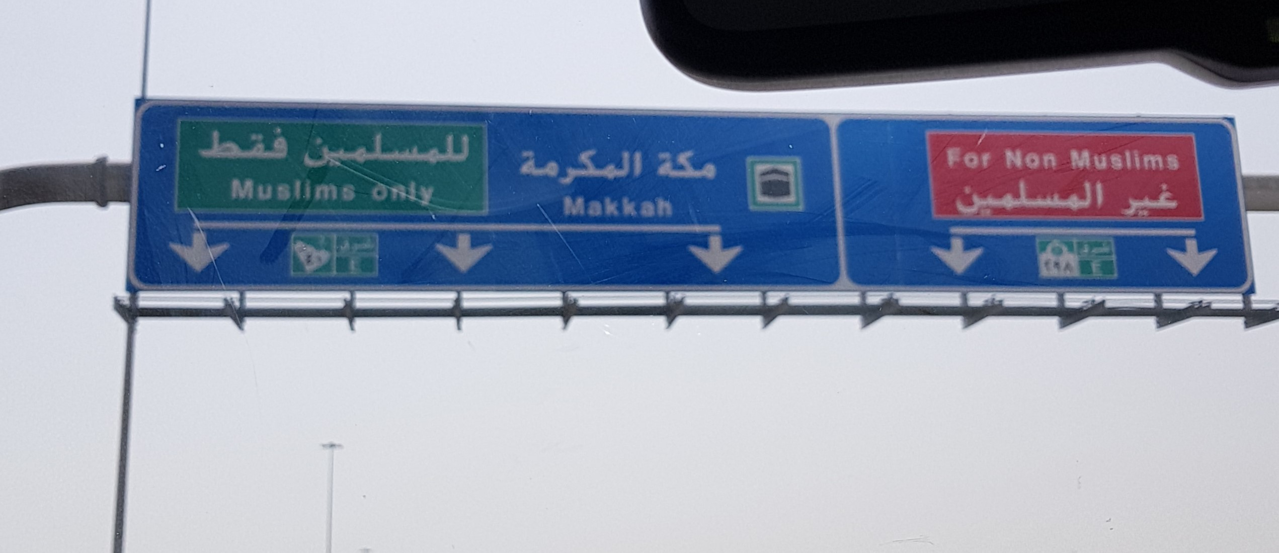 A road sign on Jeddah-Makkah highway, showing different road for non-Muslims